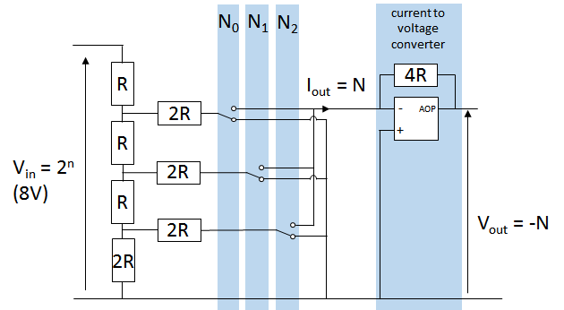 Digital Analog Converter resistor ladder network electronic scheme